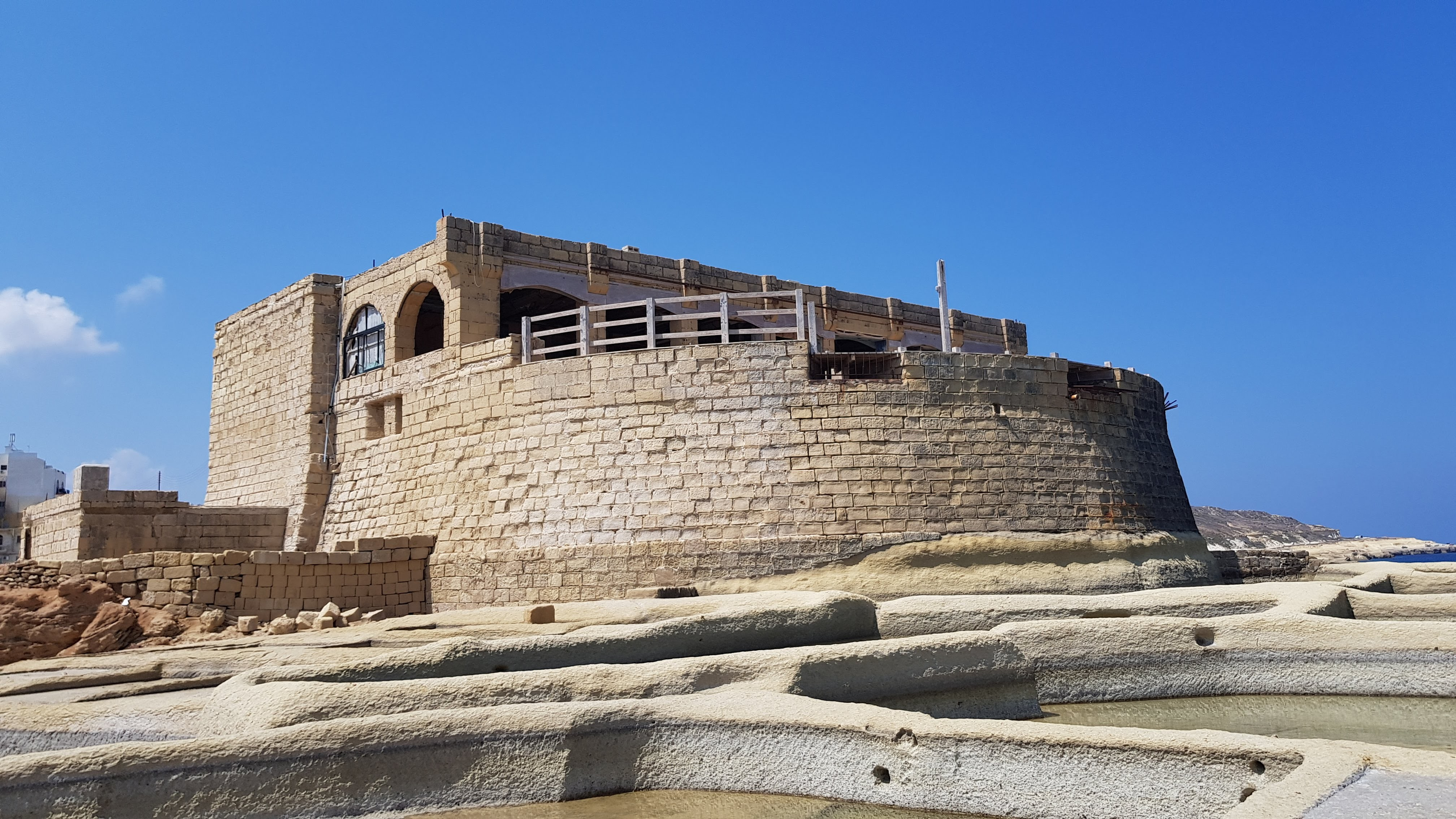 Qolla l-Bajda Battery in Żebbuġ, Gozo This media is about Maltese cultural property with inventory number 1417.